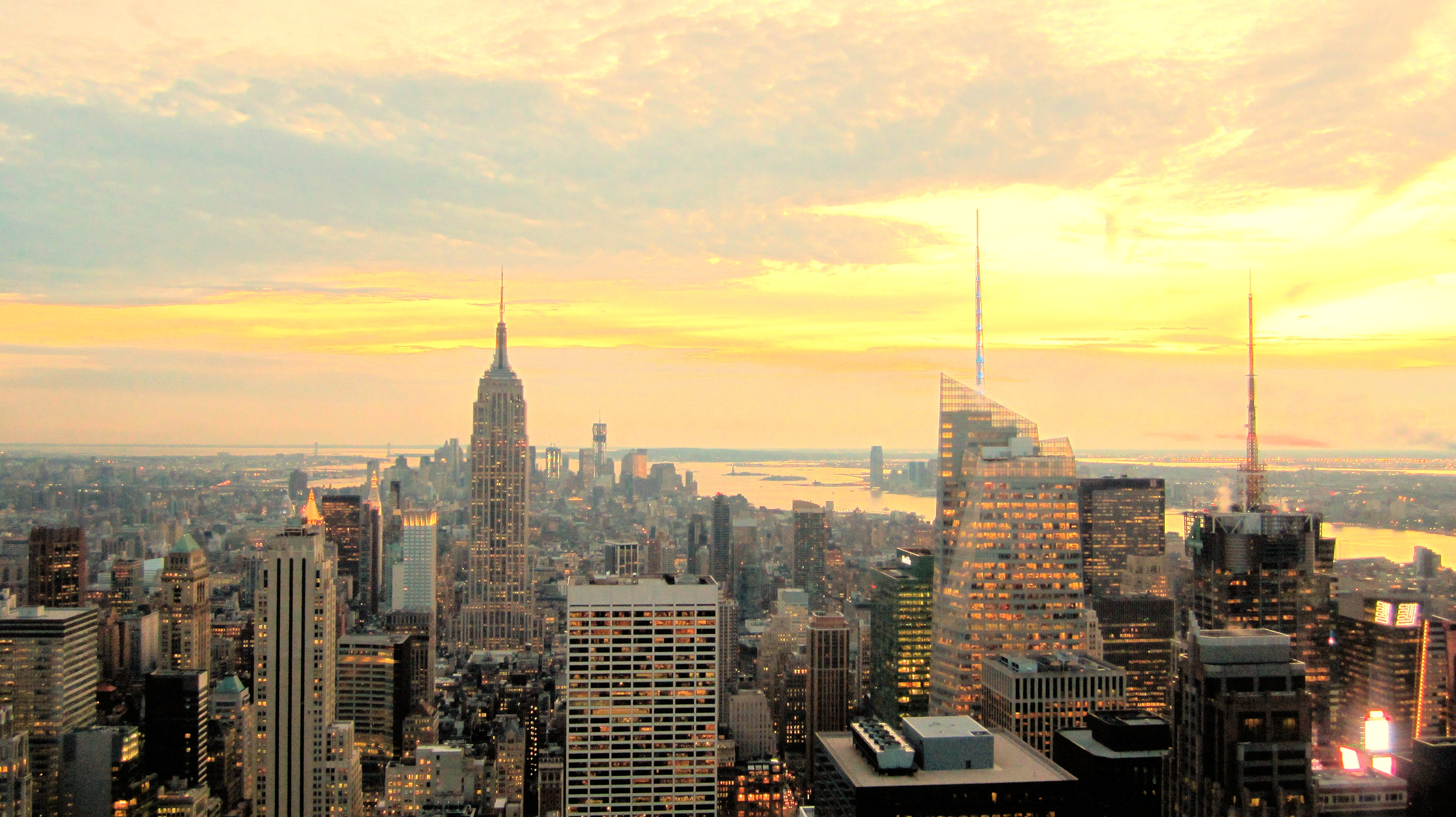 View over Manhattan from the Rockefeller Center.